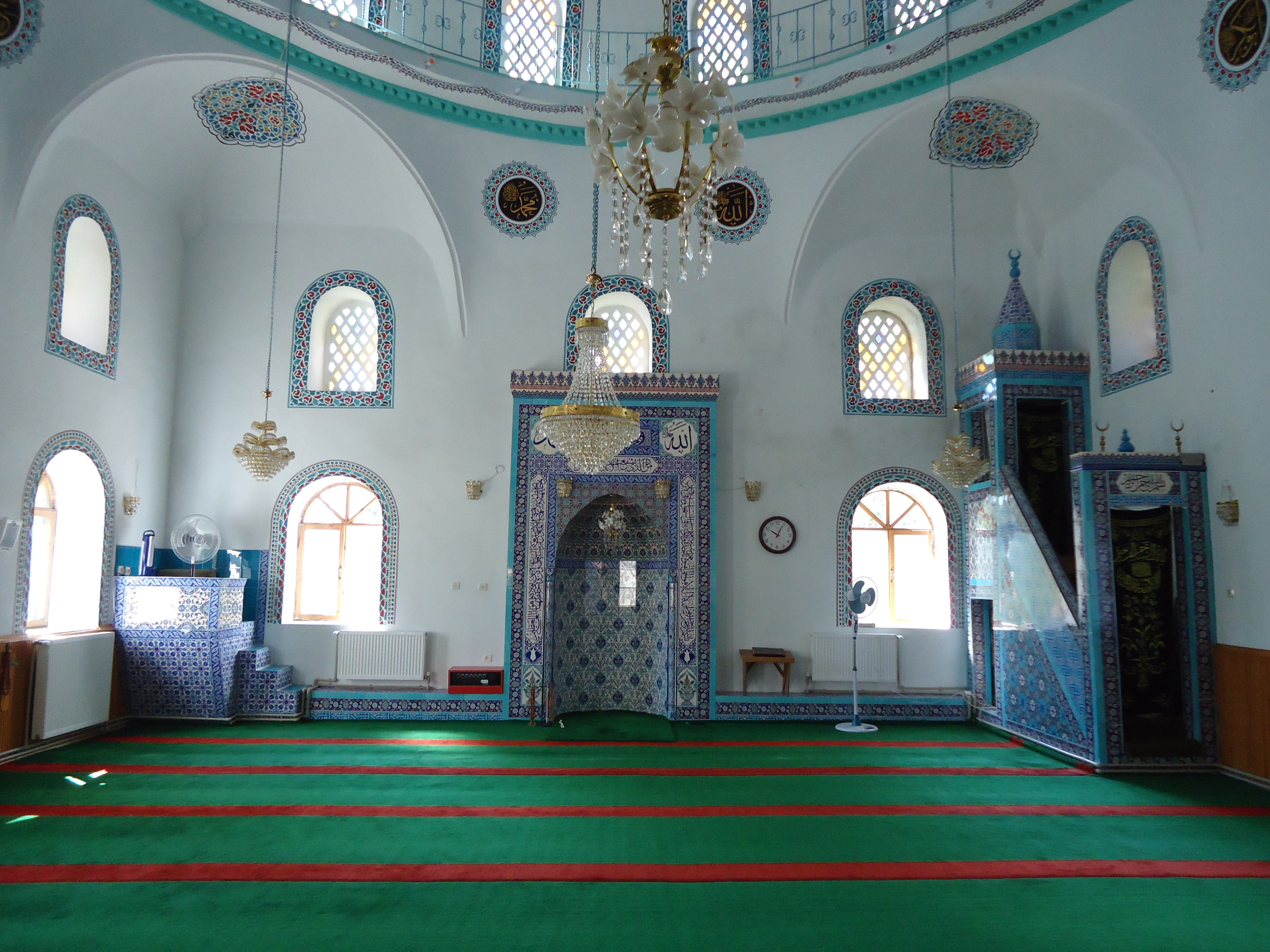 Inerior of Kışladeresi Mosque, Çorum.